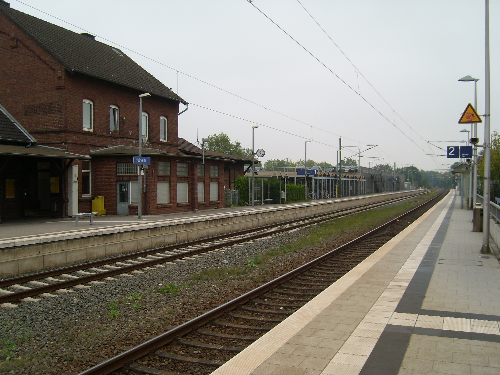 Picture of Pulheim Railway station.